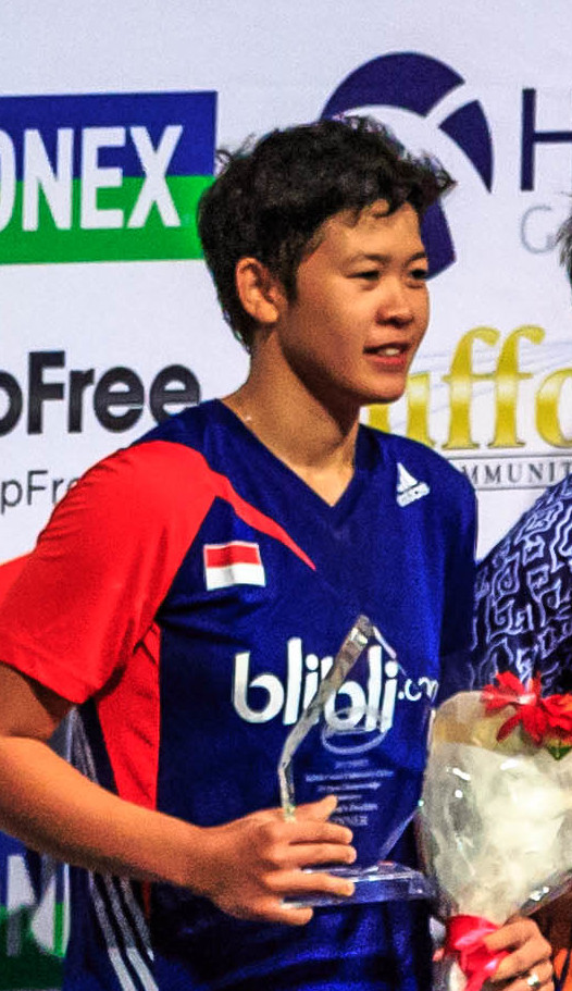 2014 BWF US Open Grand Prix Gold Badminton Championships...WD Final...Irawati/Marissa (INA)...def Supajirkul/Taerattanachai (THA)